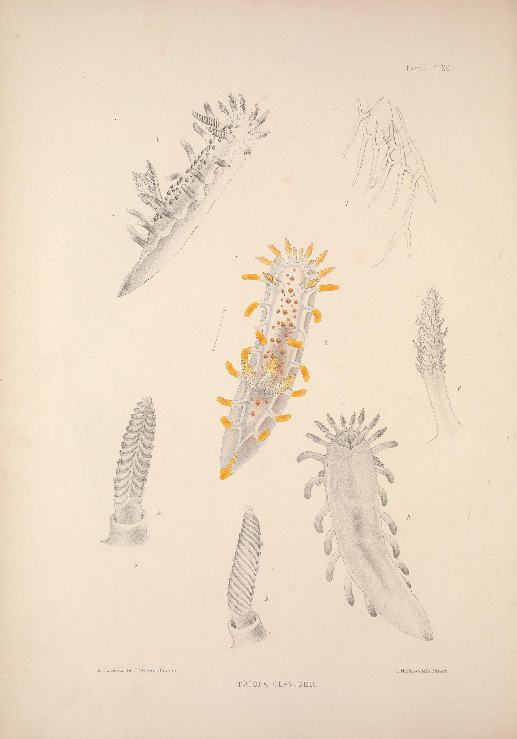 Alder J. & Hancock A. (1845-1855). A monograph of the British nudibranchiate Mollusca: with figures of all the species. The Ray Society, London. Published in 8 parts:Part 4 Fam. 1 Plate 20 [1848]. Triopa claviger synonym Limacia clavigera (O. F. Müller, 1776) accepted name